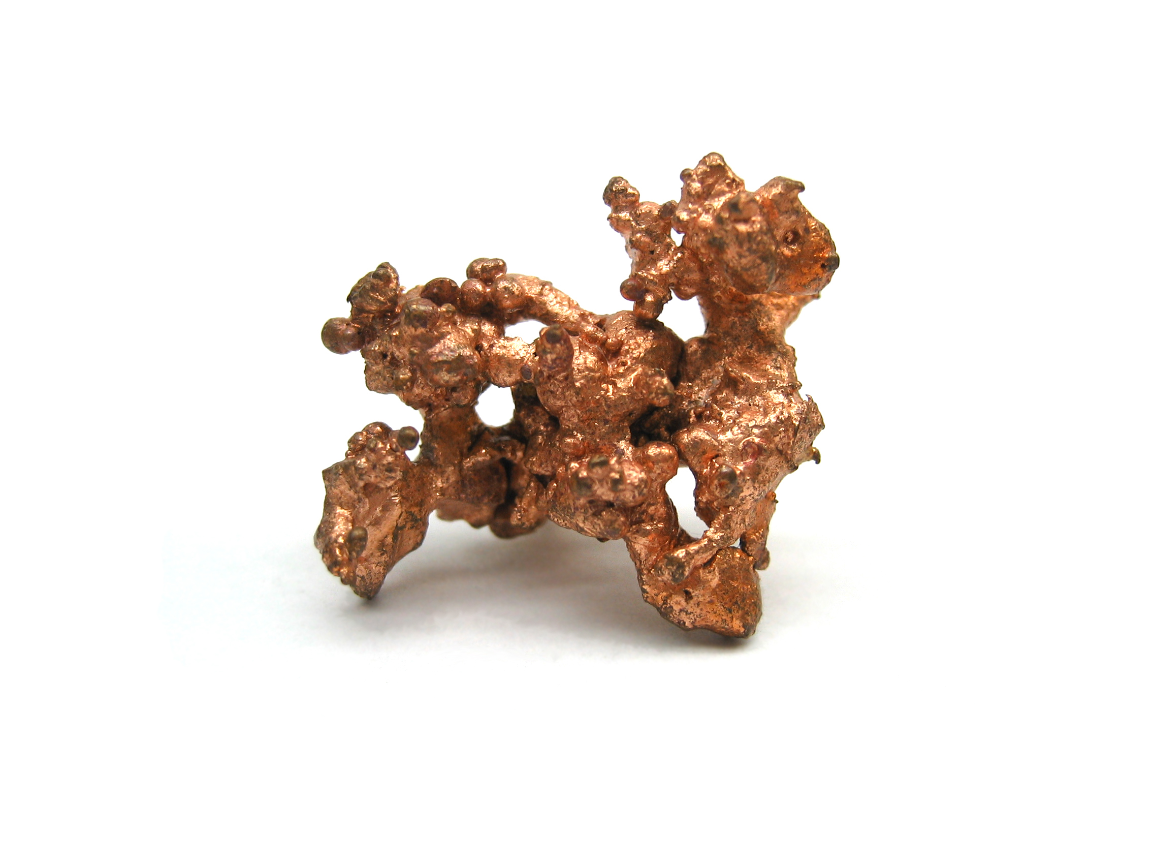 Macro of native copper about 1 ½ inches (4 cm) in size.